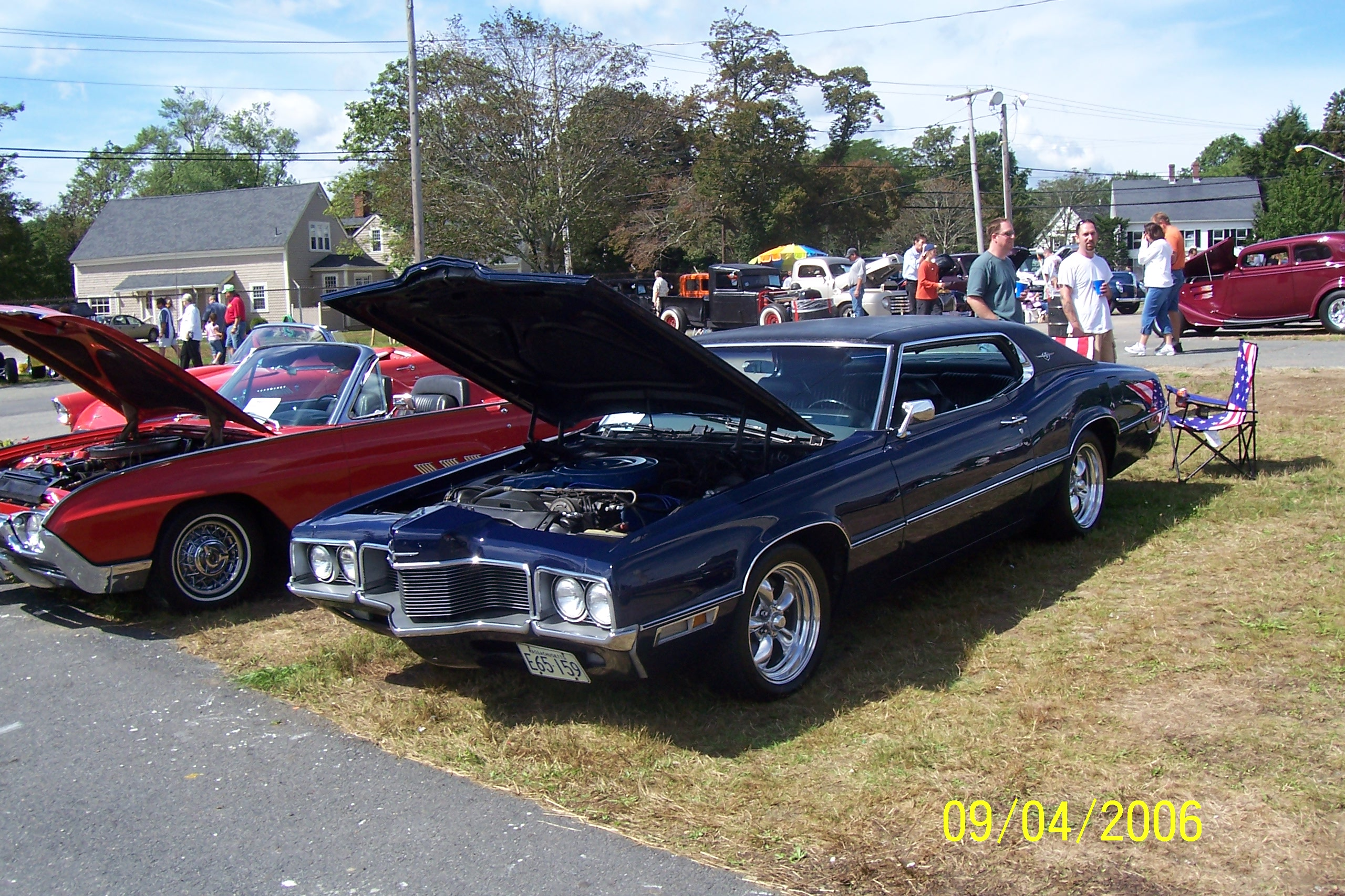 1970 or 1971 Ford Thunderbird